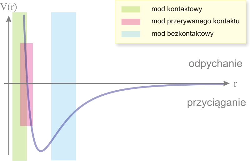 AFM basic modes zones marked on Lennard-Jones potential